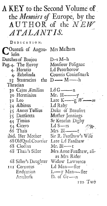 One of the roman-à-clef "keys" that appeared without official authorisation. This one referred to Delarivier Manley's New Atalantis (109)